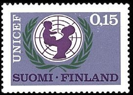 UNICEF 20 years anniversary